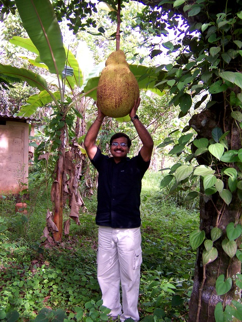 Jackfruit found in Kerala, India.